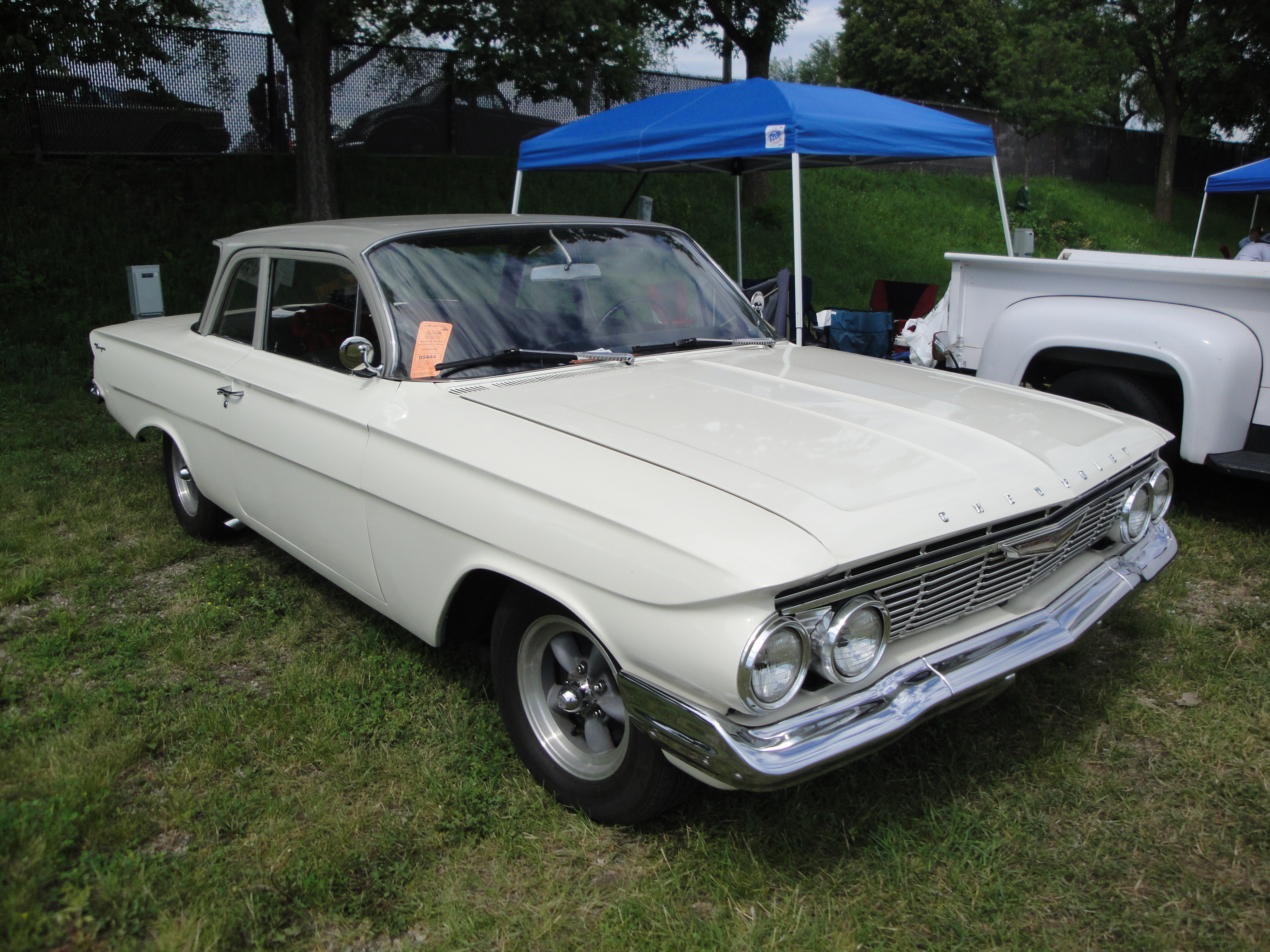 Minnesota Street Rod Association 39th Annual "Back to the Fifties" June 2012 Minnesota State Fairgrounds St. Paul MN